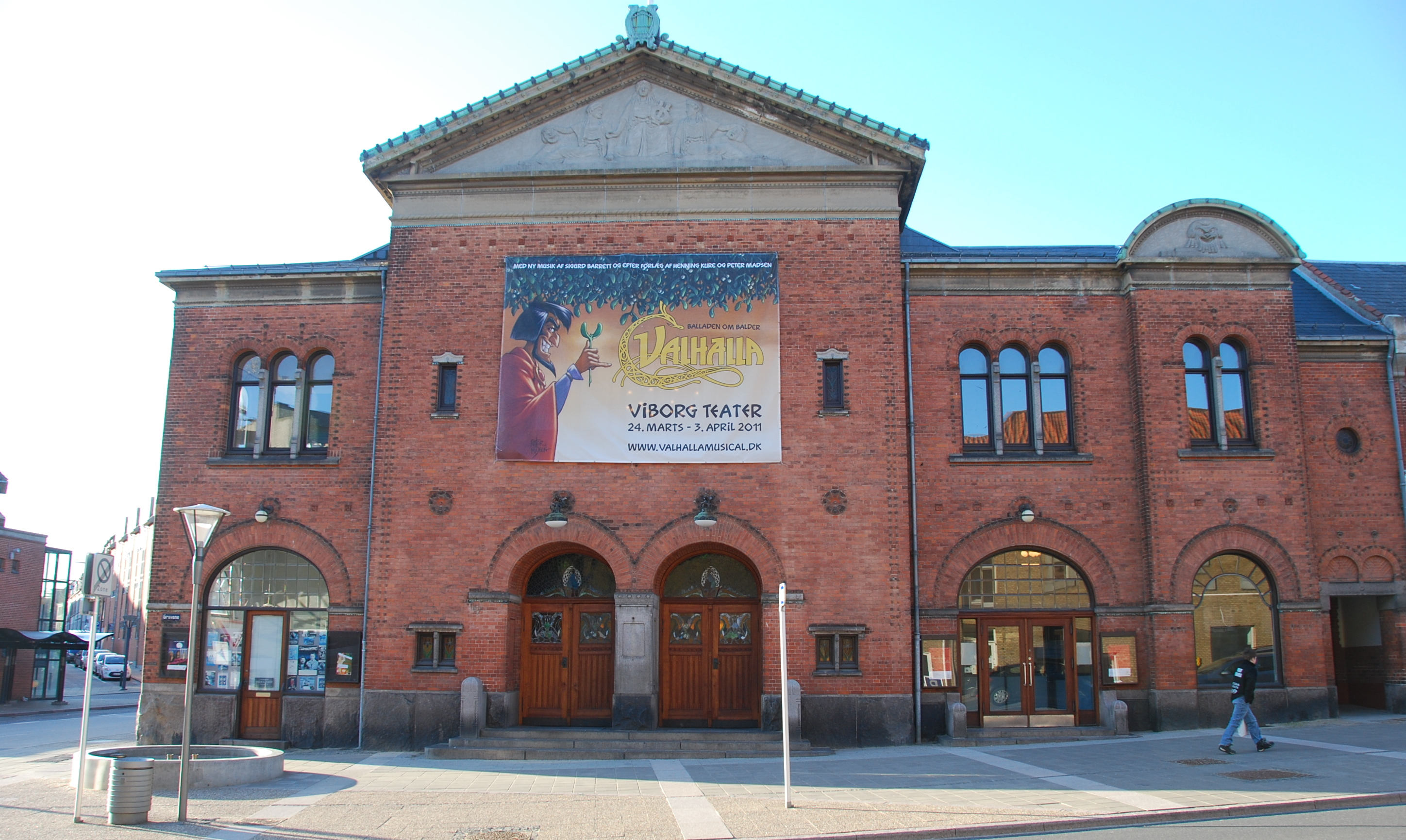 Viborg Theater in Viborg, Denmark